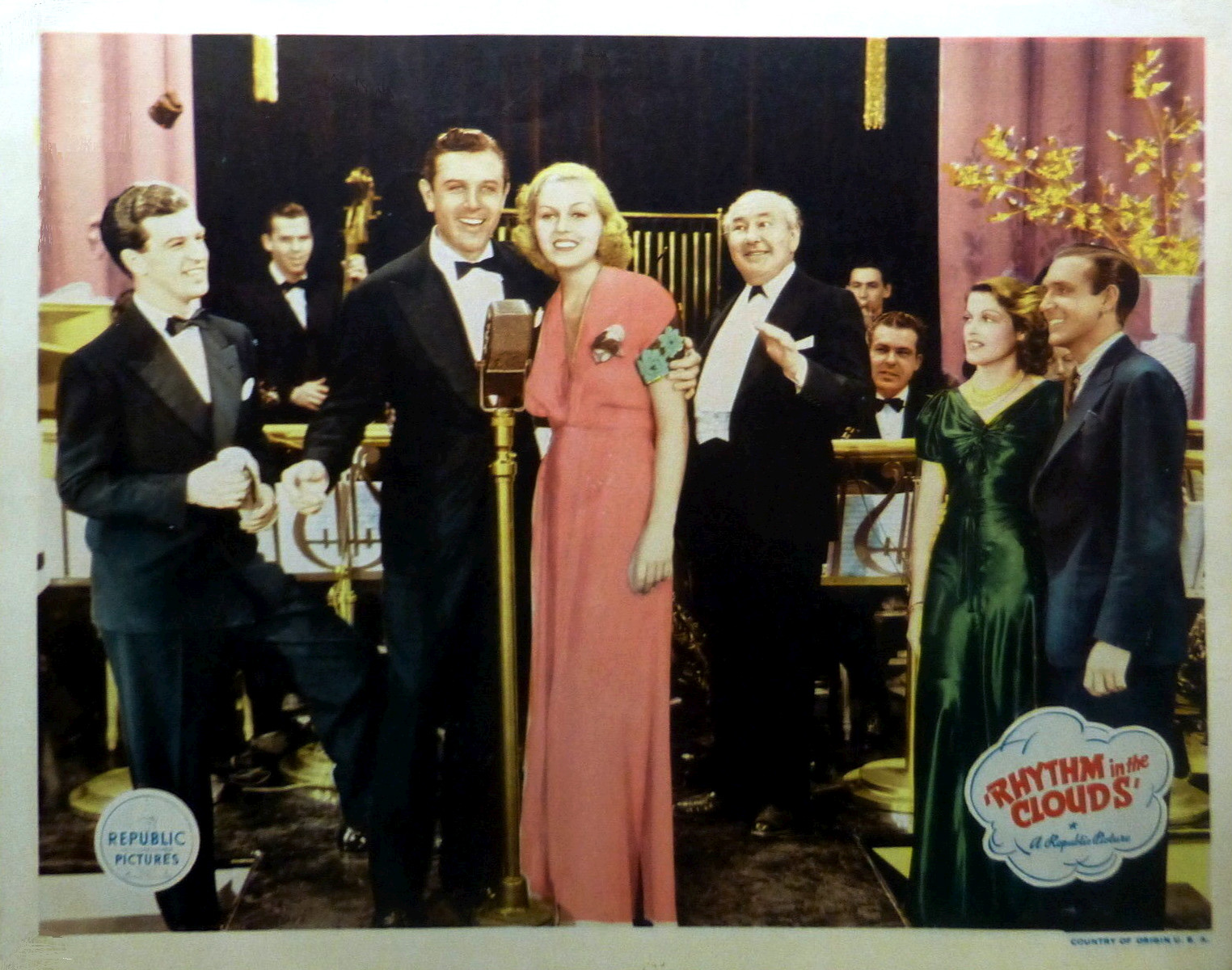 Lobby card for the American musical film Rhythm in the Clouds (1937).